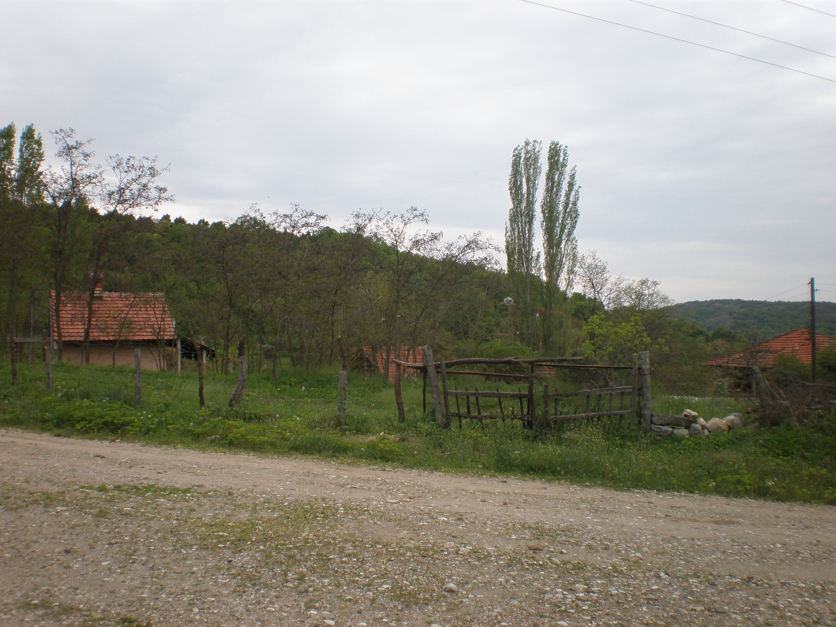 village of Gradmanci, Macedonia